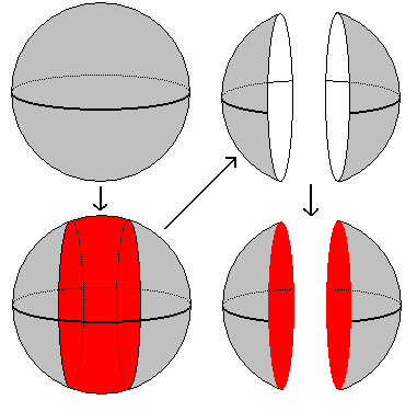 Surgery applied to a two-sphere, removing a cylinder and inserting two disks.